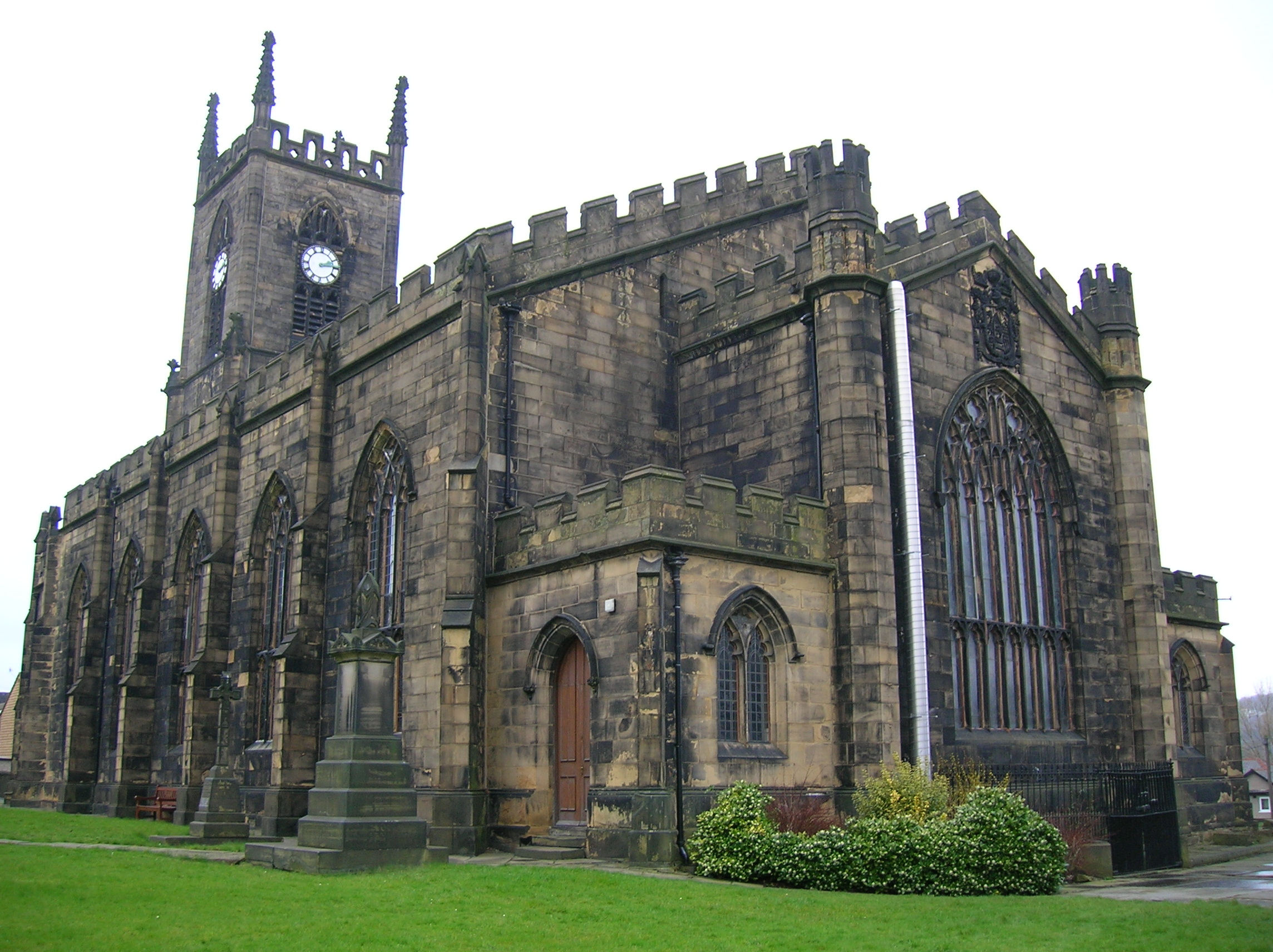 Description:St Pauls, Shipley, West Yorkshire Image credited to:Helena.40proof's